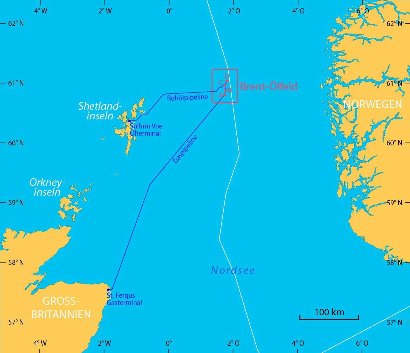 Location map of the Brent oil field